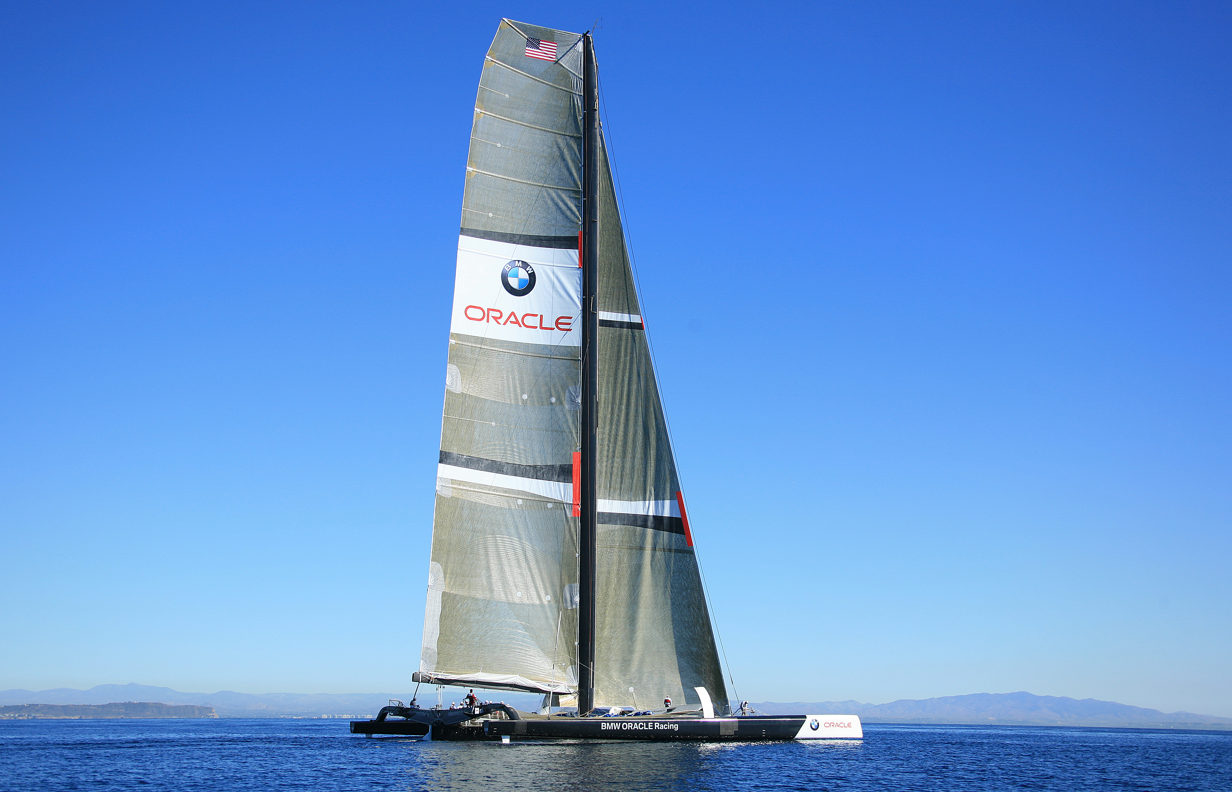 BMW Oracle BOR 90 sea trials off San Diego